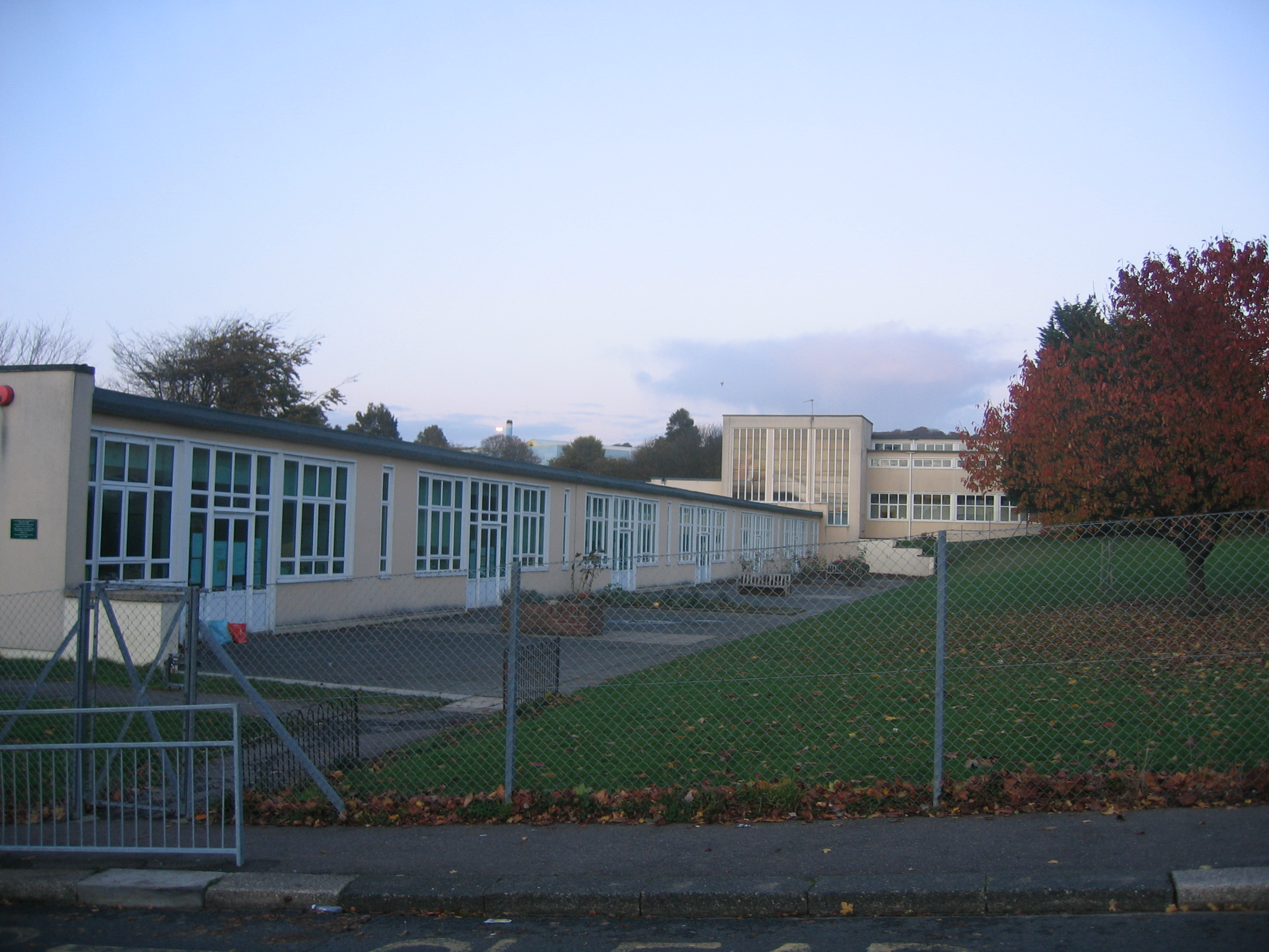 View of Carden Primary School in Brighton, UK.